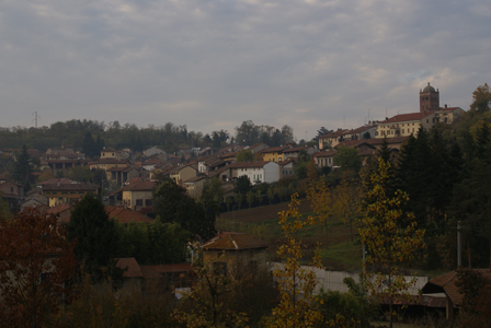 Pomaro Monferrato (province of Alessandria): general view